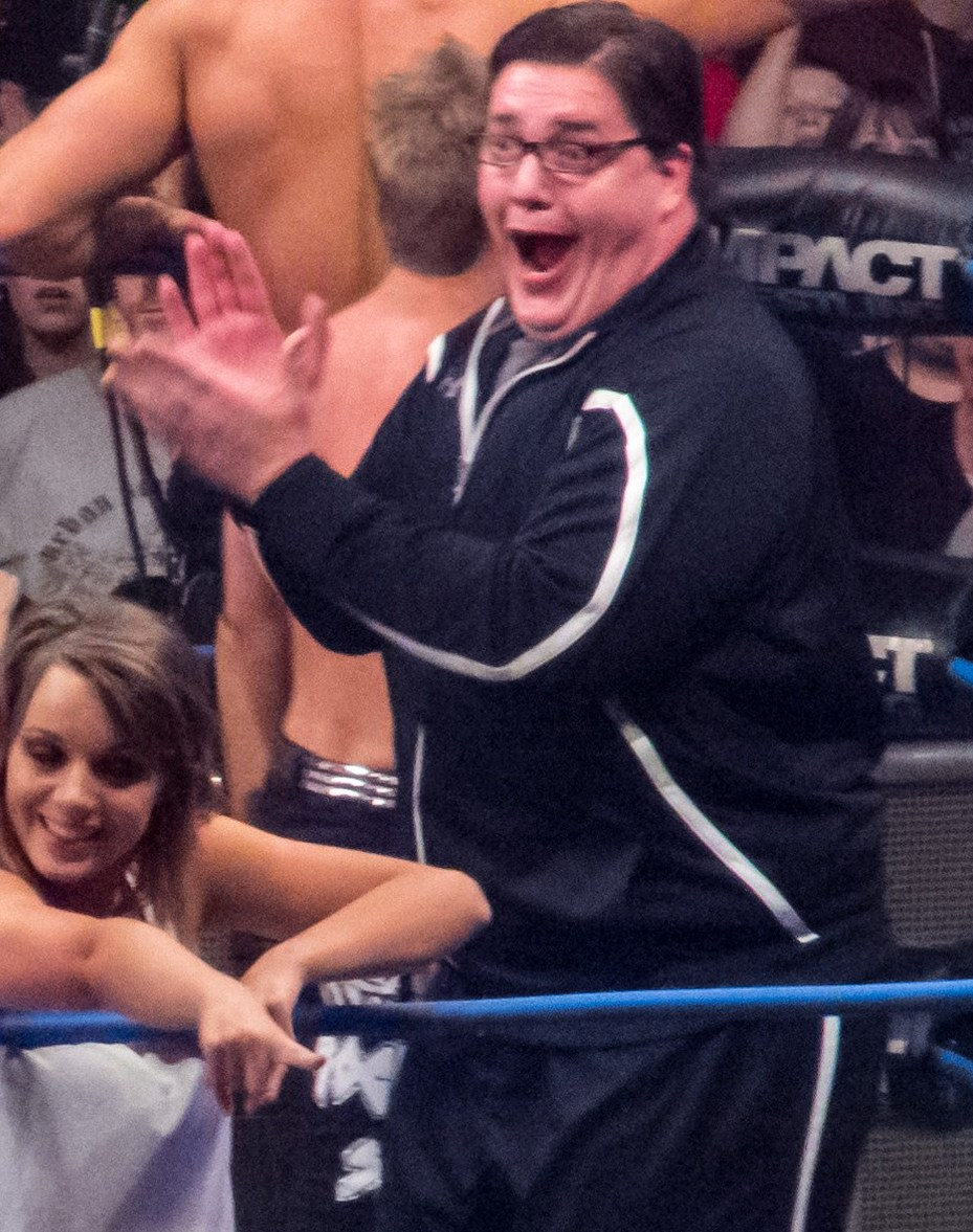 Joseph Park at the Impact! TV Tapings in Wembley, England on January 26, 2013.